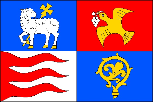 Municipal flag of Koválovice-Osíčany village, Prostějov District, Czech Republic.